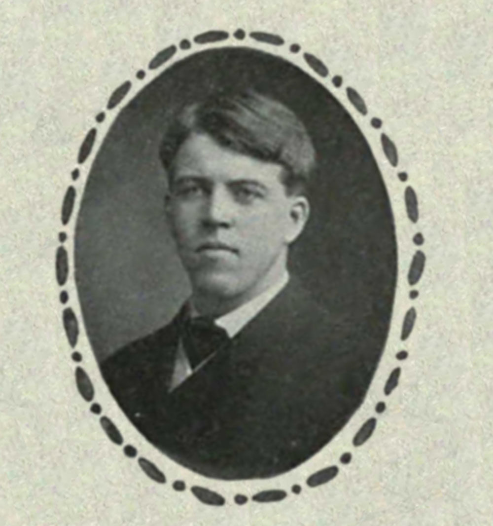 Fred Stephenson Norcross' 1904 yearbook photo